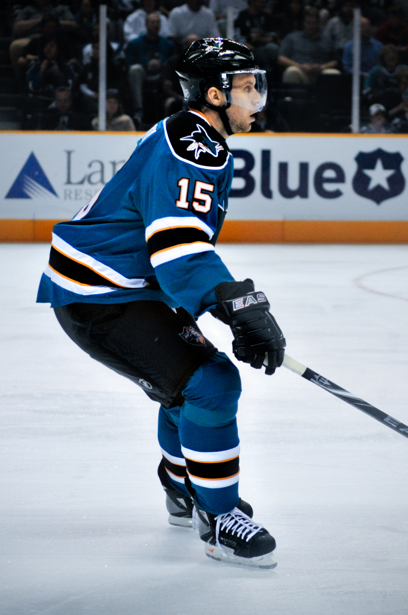 Dany Heatley of San Jose Sharks